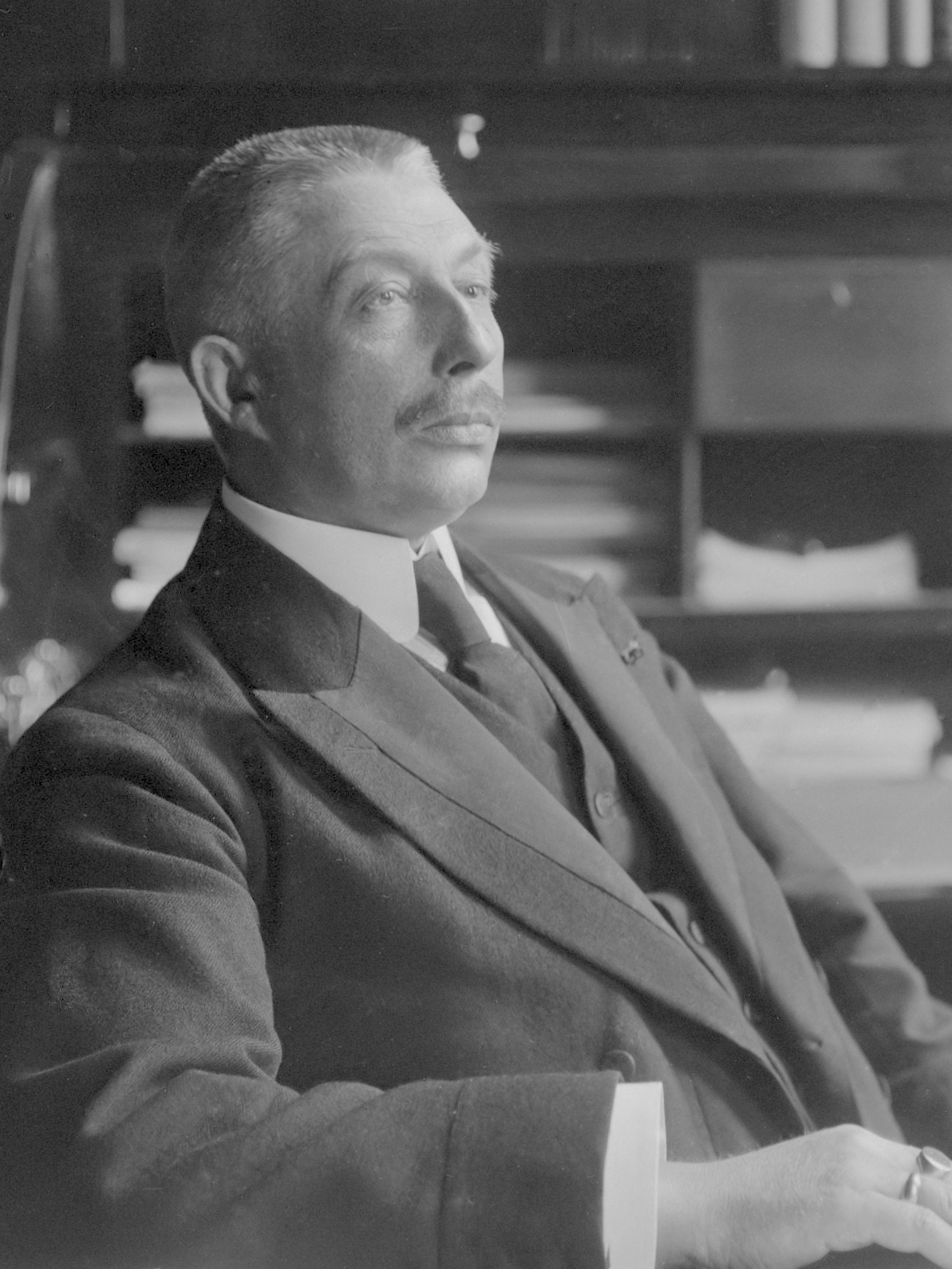 Hendrikus Colijn (1869-1944). Minister van Oorlog. 1913